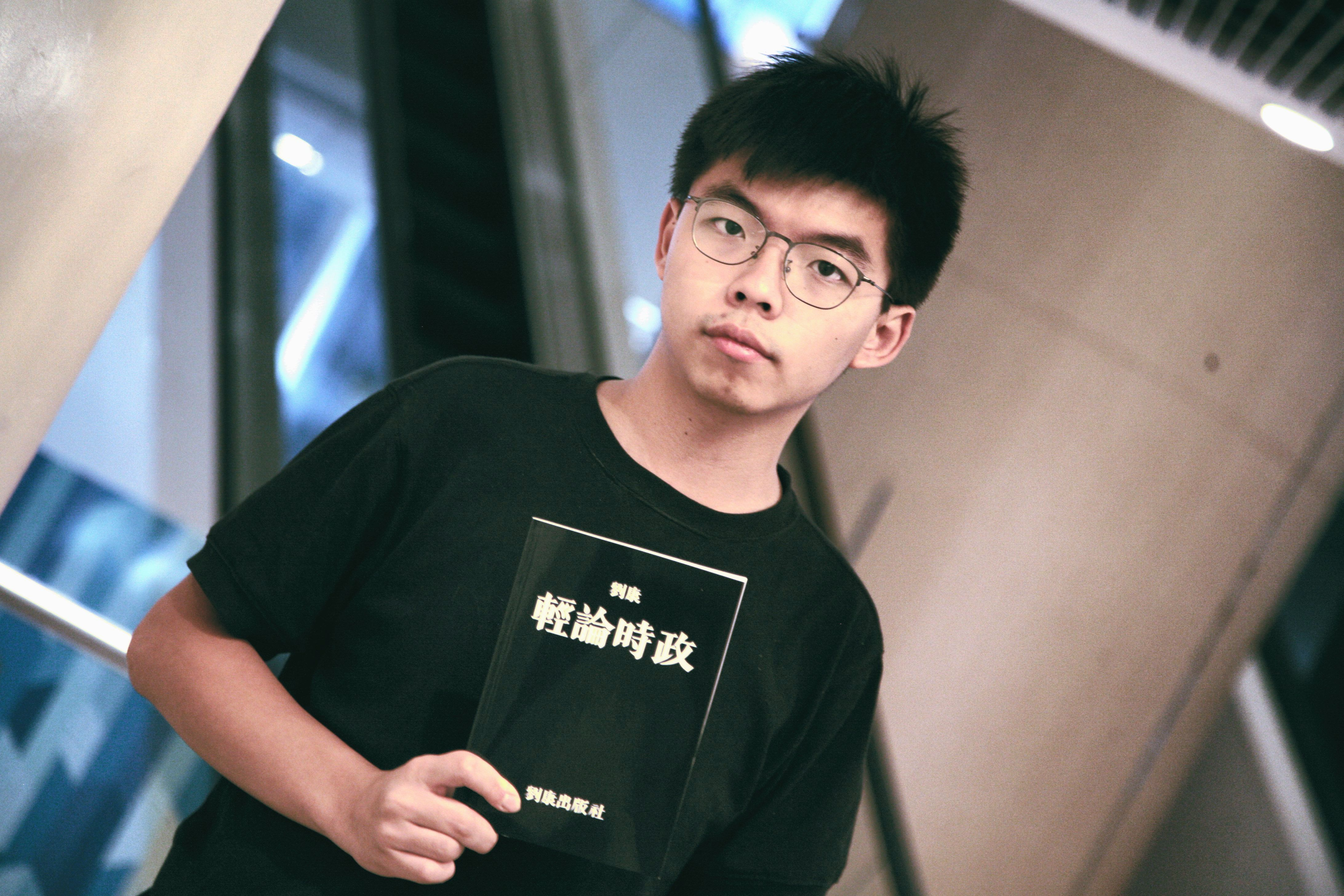 Joshua Wong held Honcques Laus's book on August 29 2019. 粵語: 2019年8月29號，黃之鋒攞住劉康新書《輕論時政》。